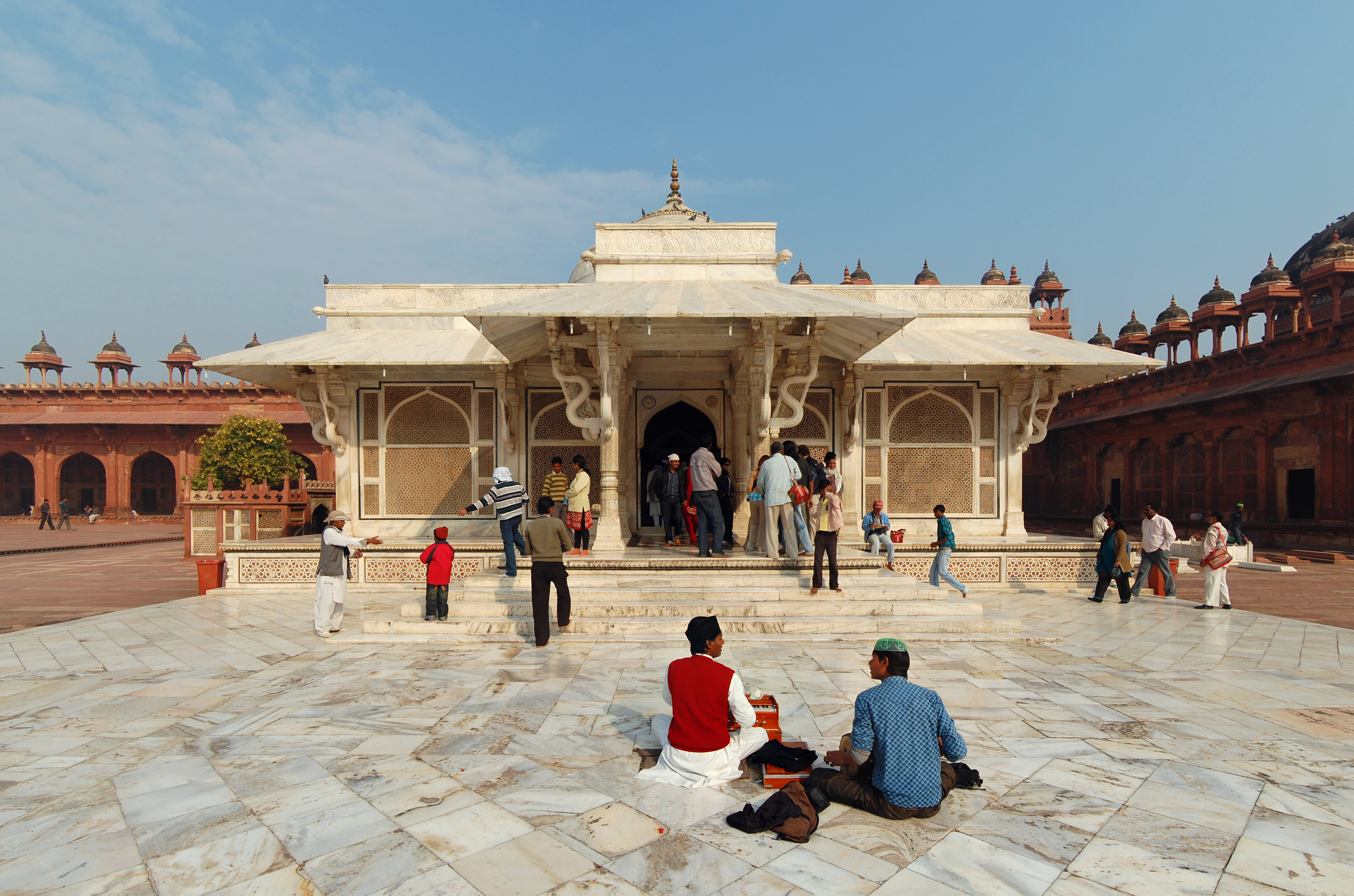 Salim Chishti's Tomb, Jami Masjid mosque, Fatehpuru Sikiri, India.